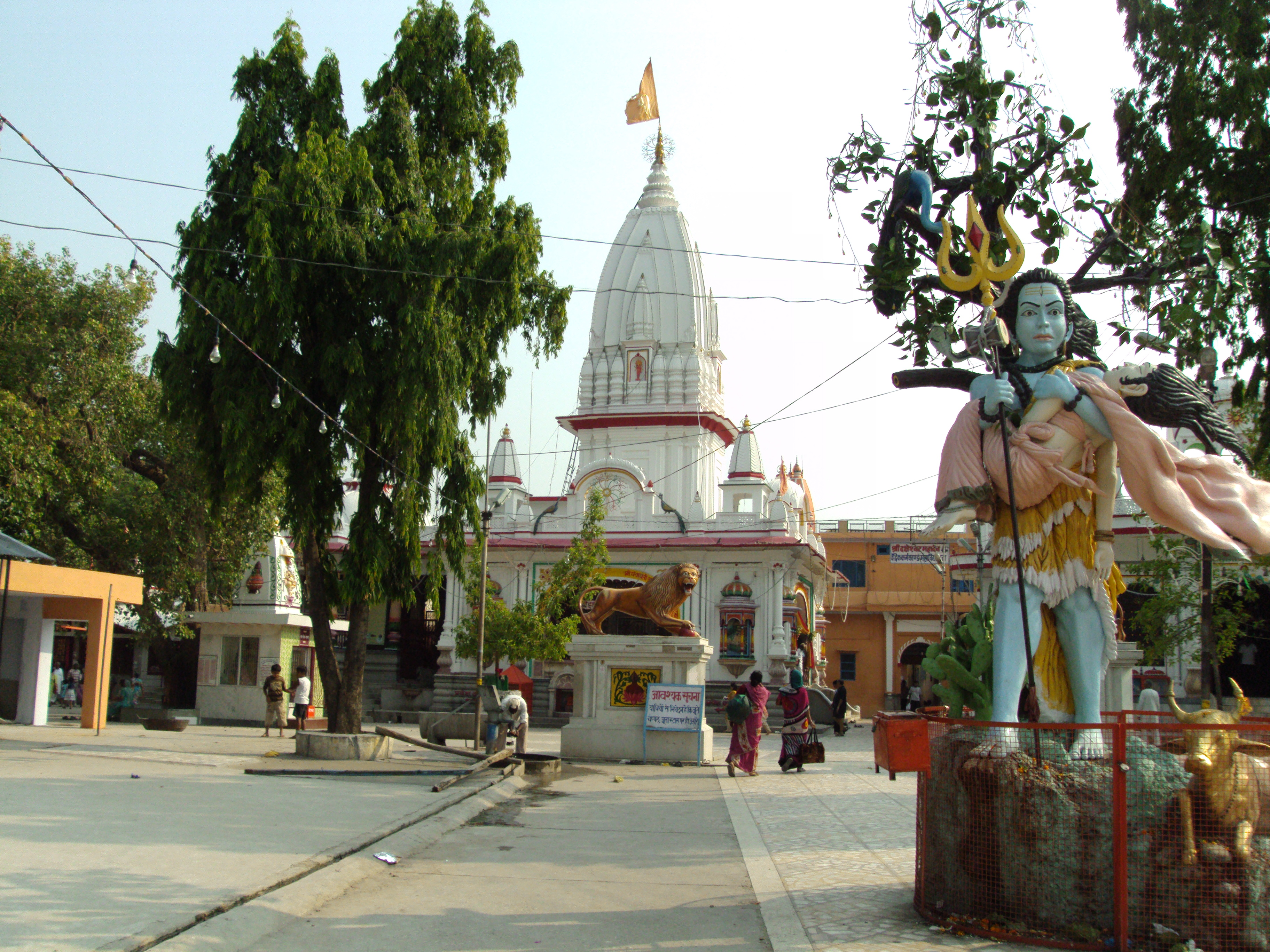 Daksheshwar Mahadev temple, Kankhal, Haridwar district, Uttarakhand